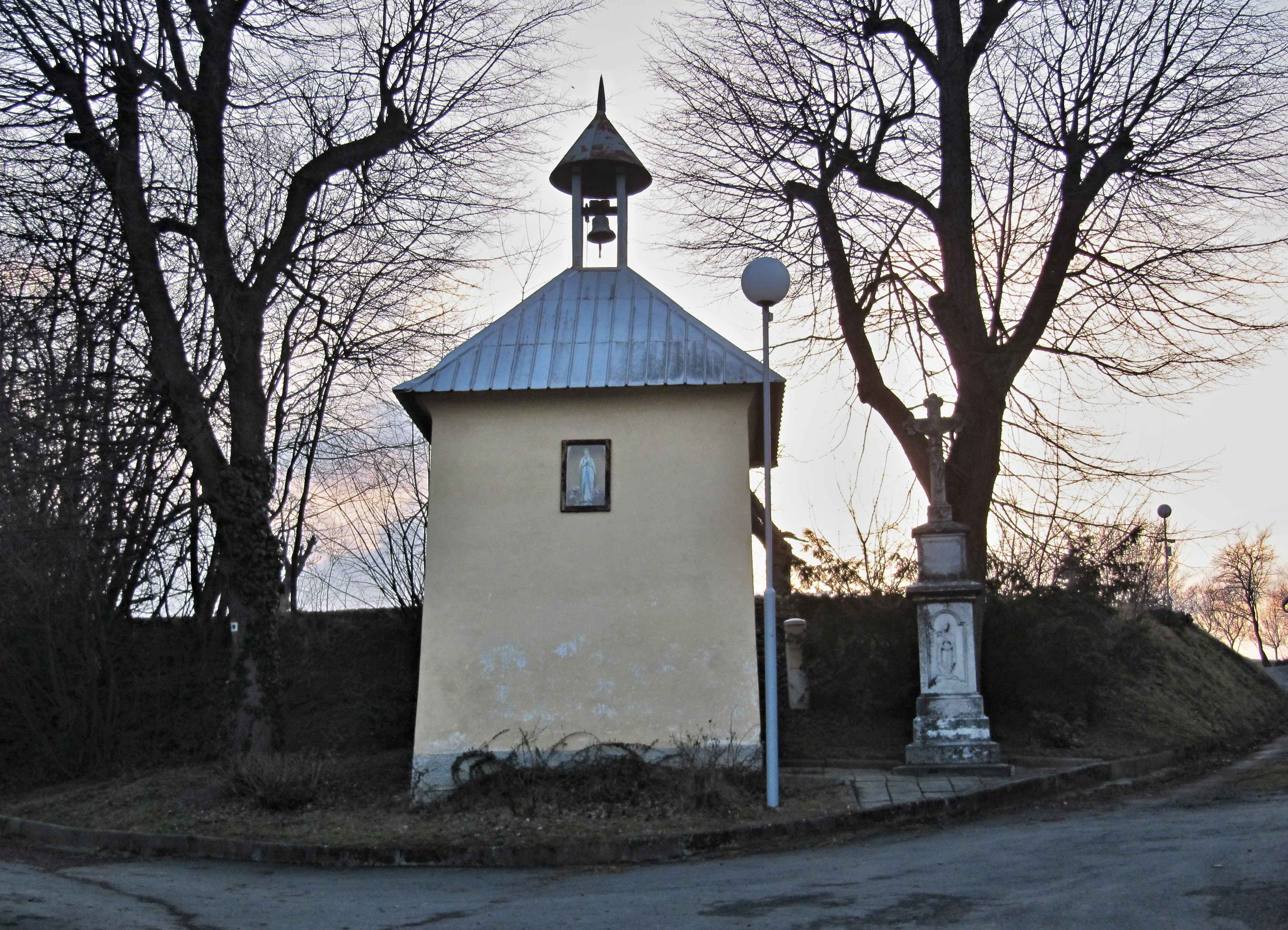 Soběsuky, Kroměříž District, Czech Republic, part Skržice.